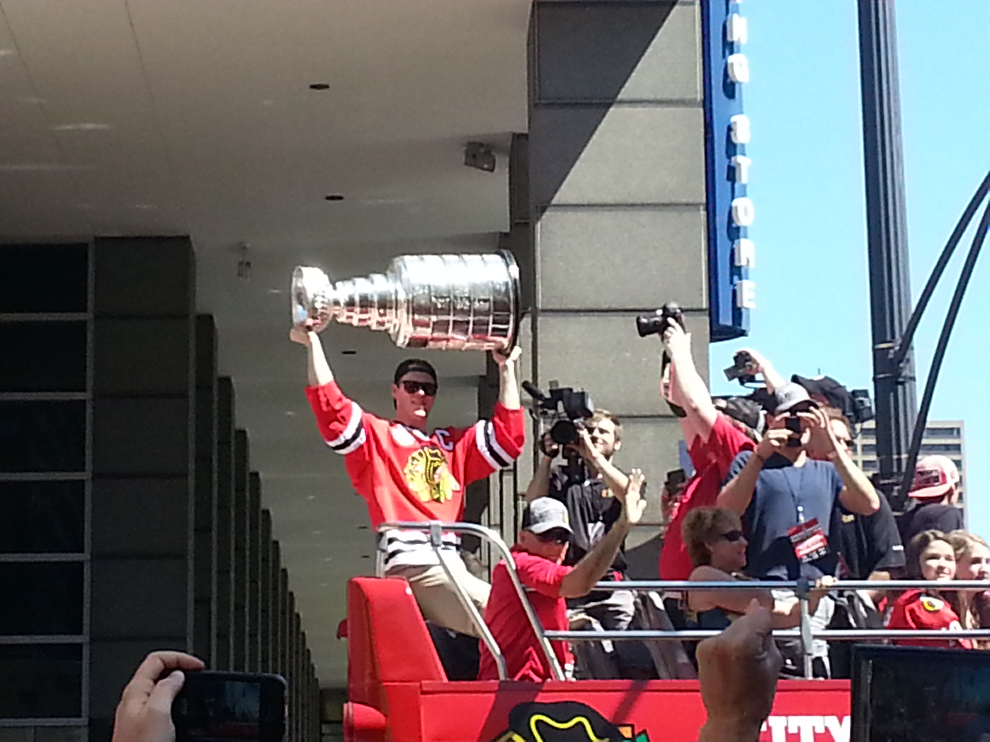 Jonathan Toews hoisting the Stanly Cup during the 2013 parade in Chicago.